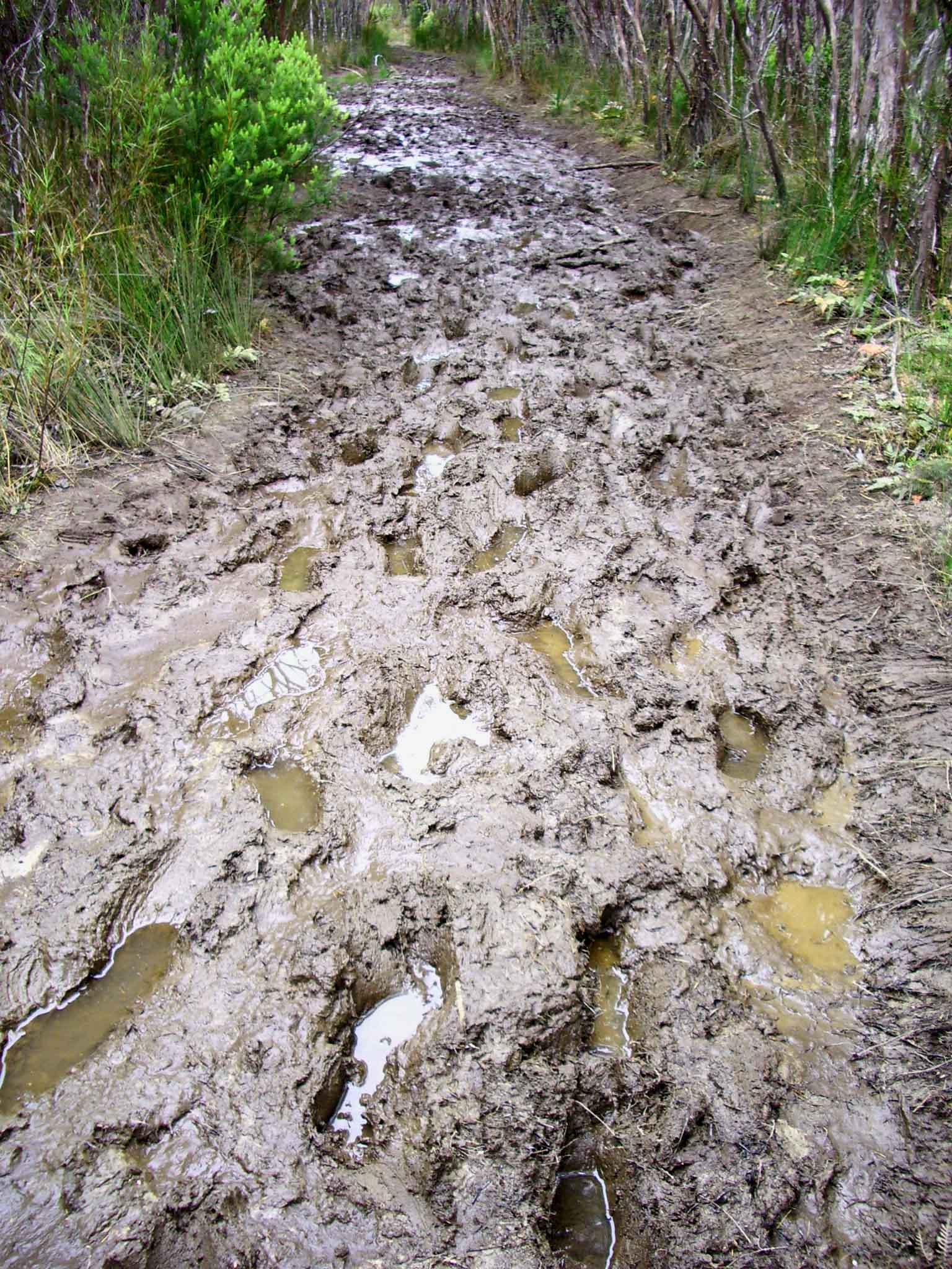 Boggy part of the North-West Circuit, Rakiura National Park, Stewart Island. Kanuka trees between Freshwater Landing and Mason Bay